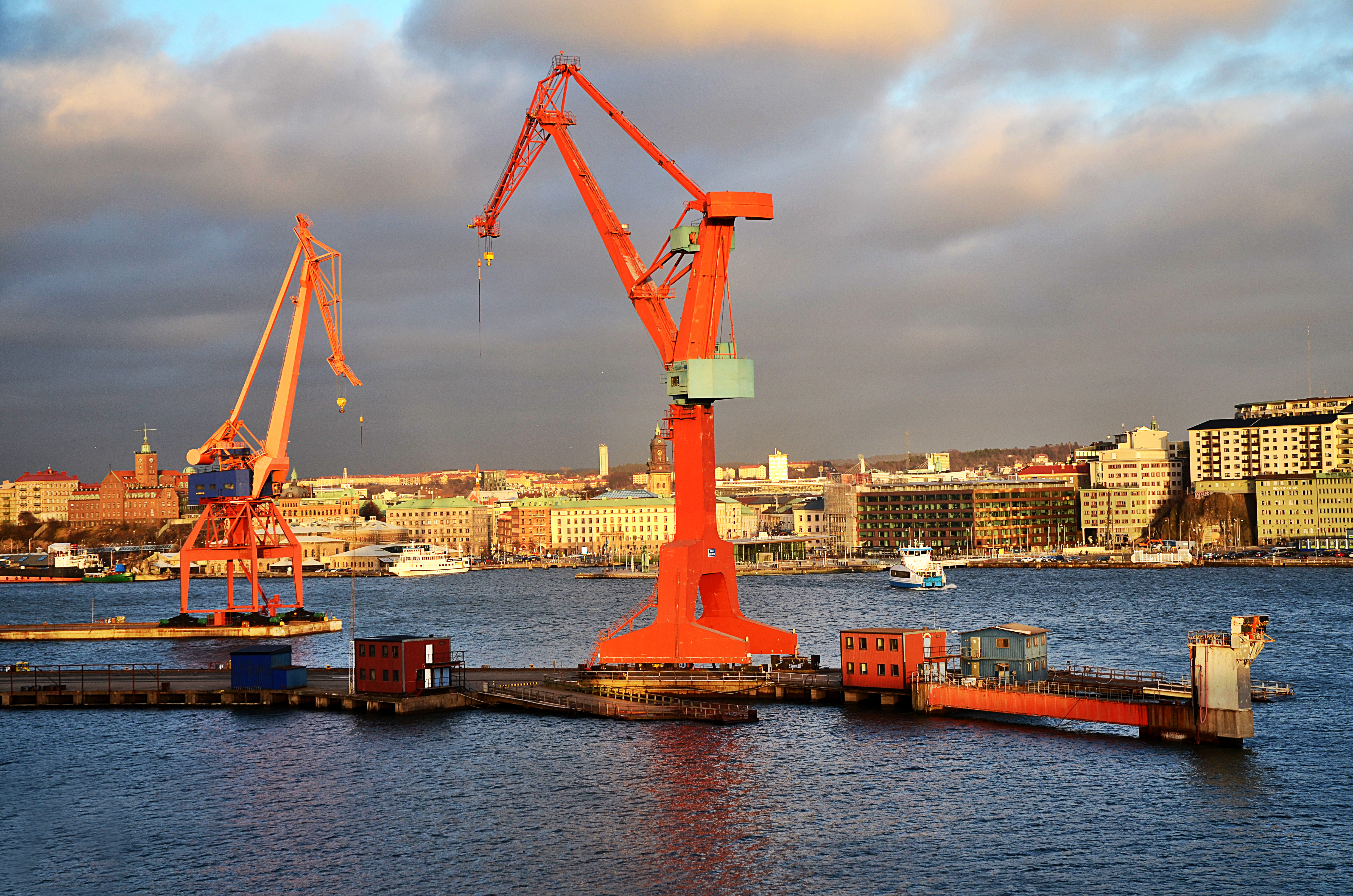 2 of the 3 big cranes preserved by municipality as industrial heritage (taken from 6th floor of water front building at Lindholmen)